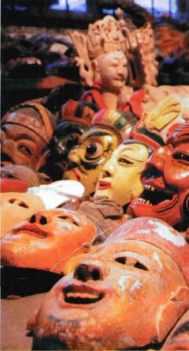 This photo is a snapshot of masks used when performing Nuo opera